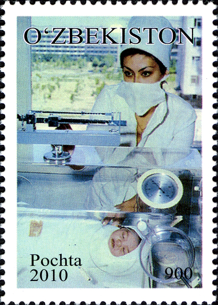 Stamps of Uzbekistan, 2010